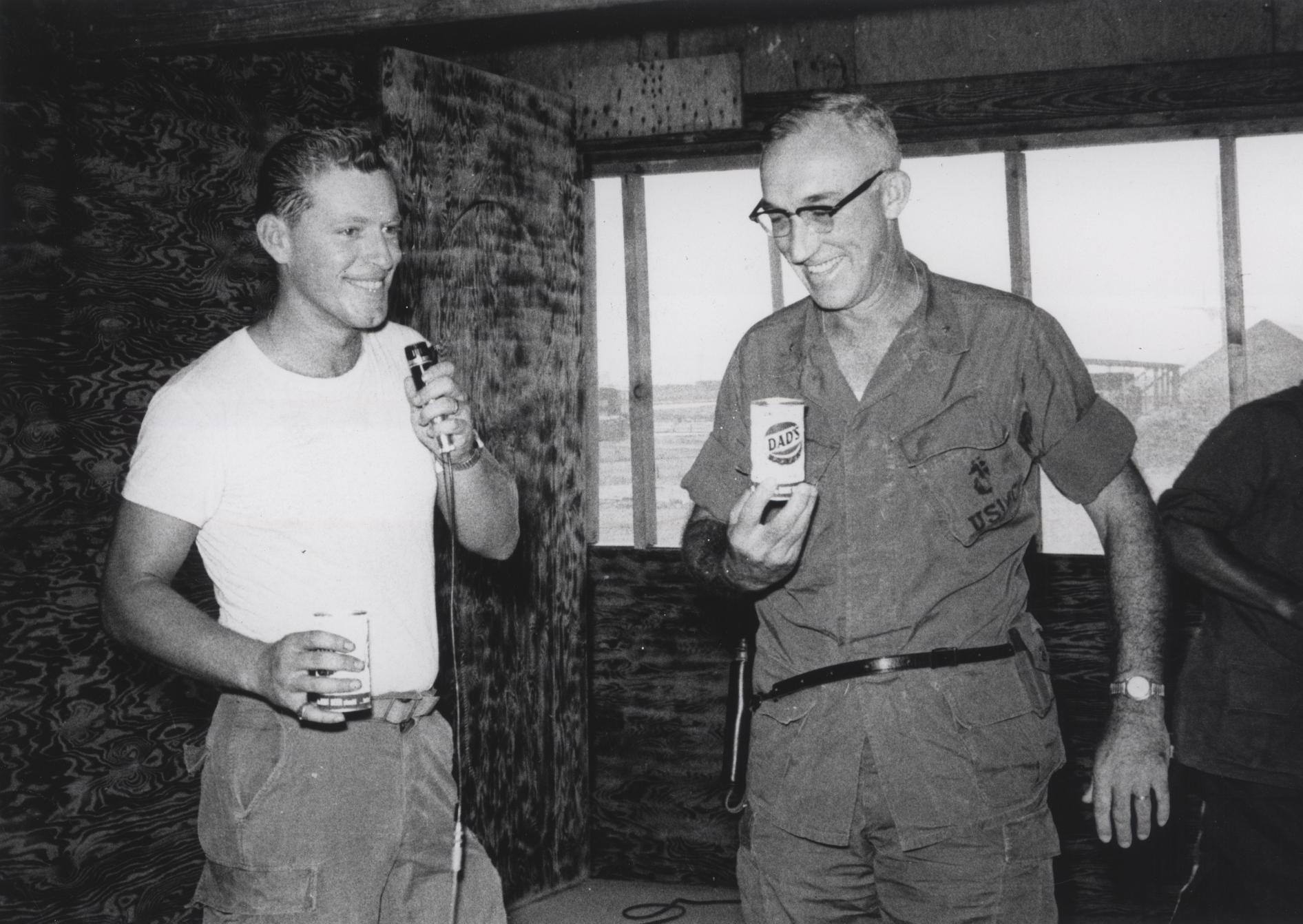 Brigadier General George D. Webster, Commanding General of Task Force X-Ray, 1st Marine Division, receives the first soda at the 1st Medical Battalion’s new enlisted men’s club. Presenting the soda was Hospital Corpsman 1st Class J. W. Duke, club manager.